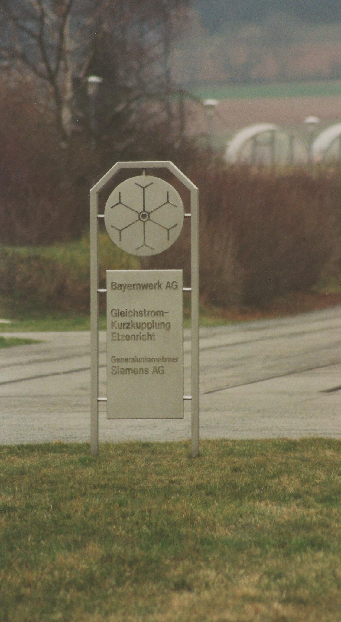 Information sign on the area of GKK Etzenricht